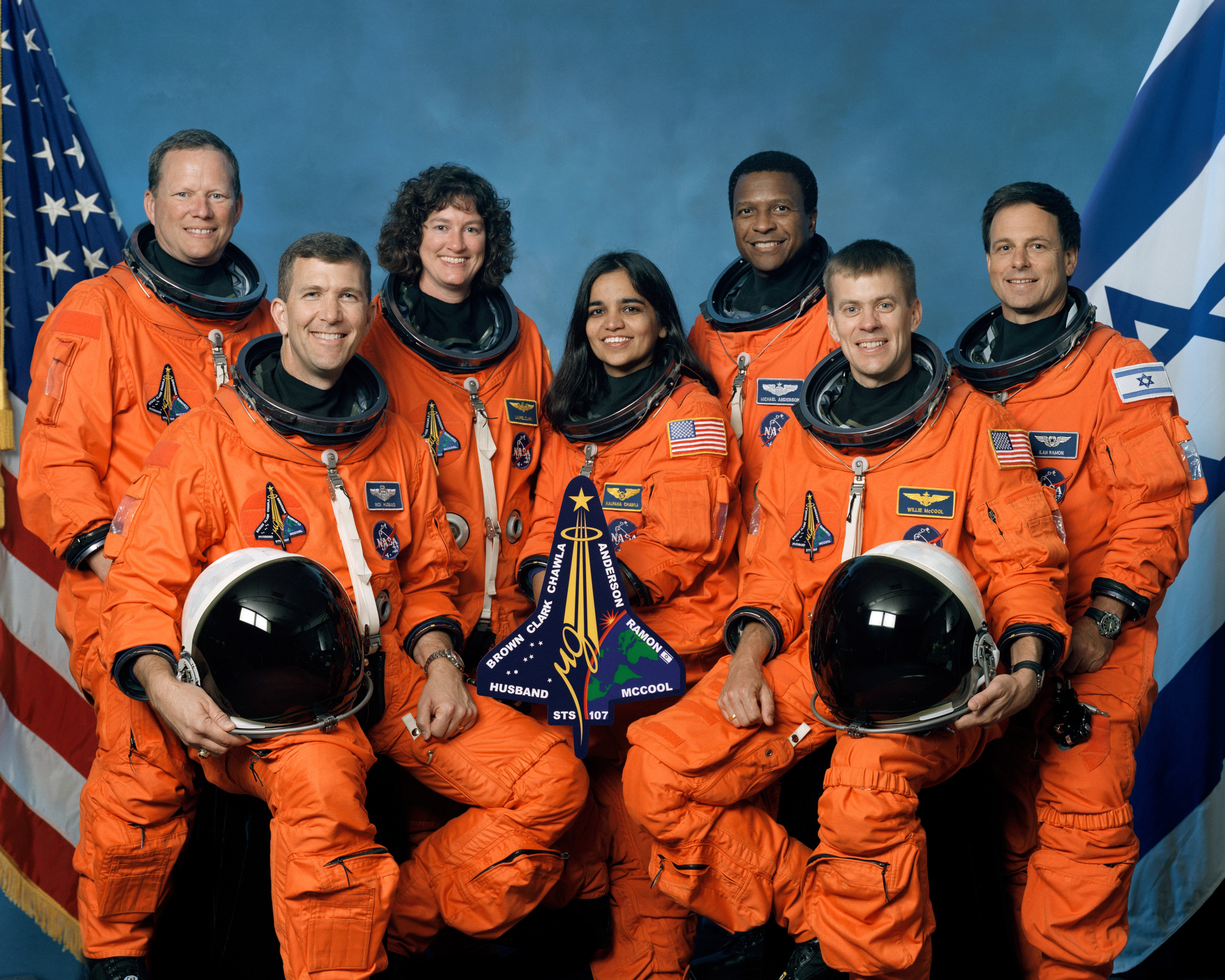 The crew of the final ill-fated flight of the Space Shuttle Columbia, mission STS-107, in October 2001. This is the official crew photograph from mission STS-107 on the Space Shuttle Columbia. From left to right are mission specialist David Brown, commander Rick Husband, mission specialist Laurel Clark, mission specialist Kalpana Chawla, mission specialist Michael Anderson, pilot William McCool, and Israeli payload specialist Ilan Ramon. All were killed when the shuttle disintegrated over Texas in February 2003.